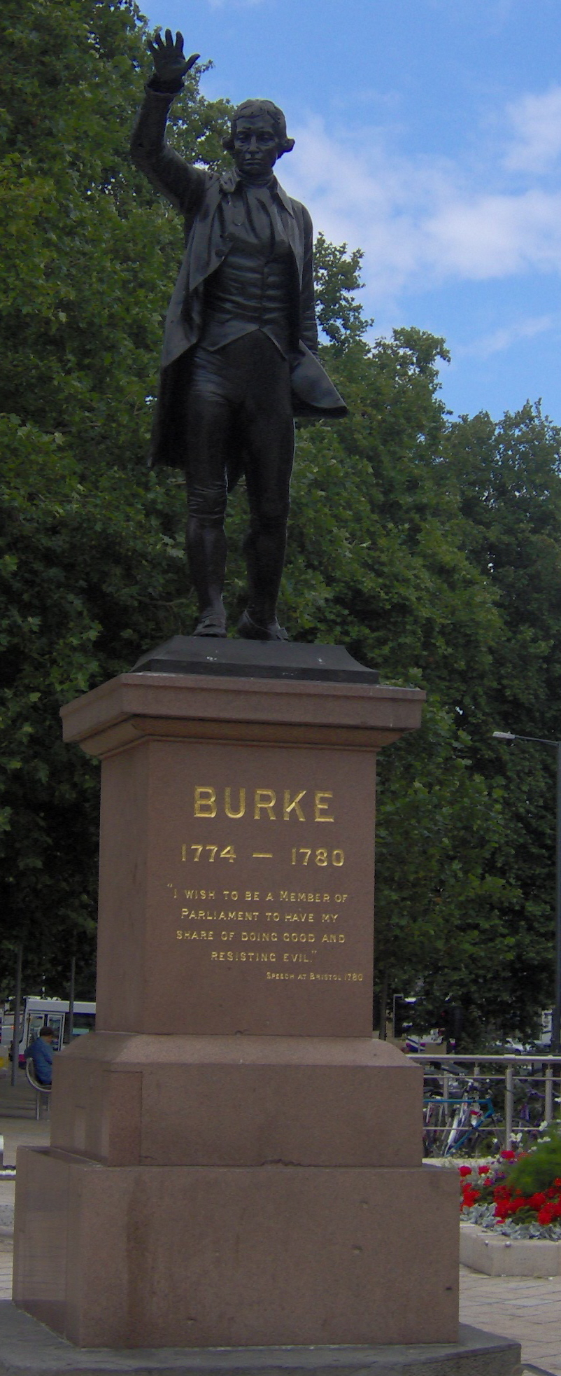 Statue of Edmund Burke, in Bristol. Taken by Rod Ward 16th August 2006.